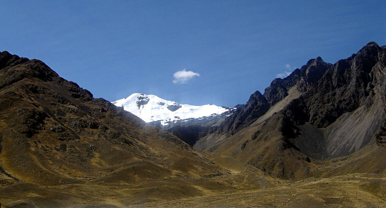 Mount Chimboya or Chimpulla (5489 meters) seen from the neck Abra la Raya, Peru.